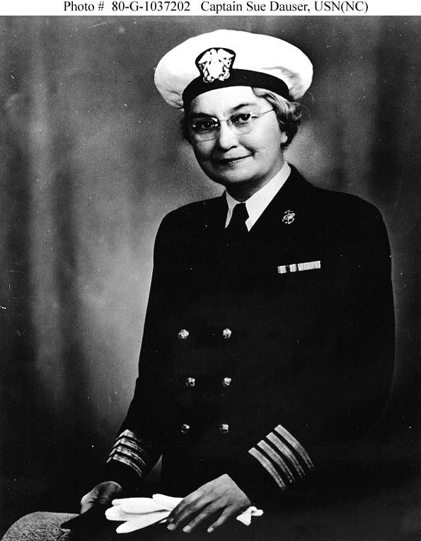 Photo #: 80-G-1037202 Captain Sue S. Dauser, (NC) USN Portrait photograph, taken during World War II. She was Superintendent of the Navy Nurse Corps from 1939 into 1945, and was the first Superintendent to hold the rank of Captain. Official U.S. Navy Photograph, now in the collections of the National Archives.